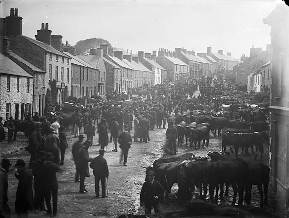 1 negative : glass, dry plate, b&w ; 16.5 x 21.5 cm.